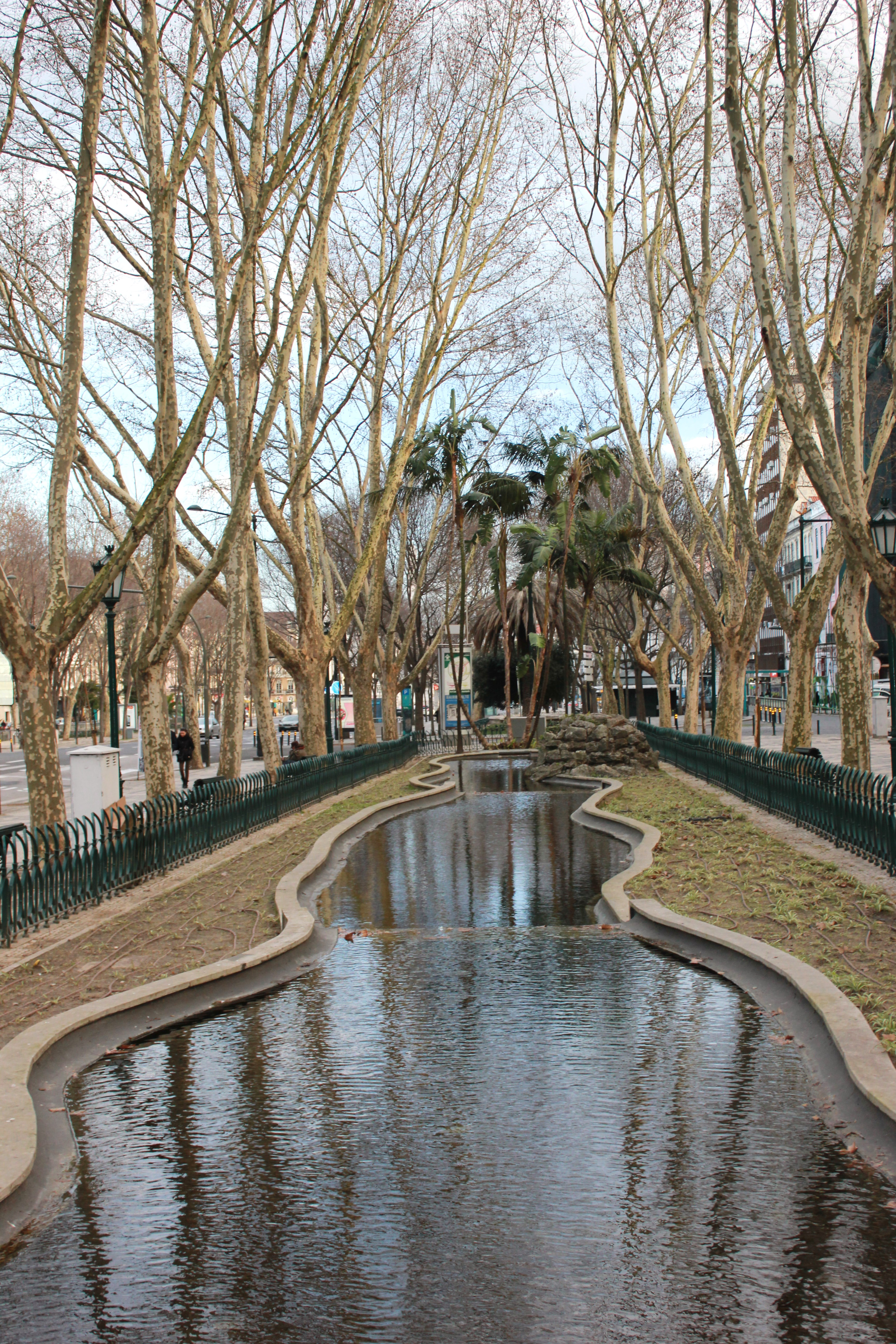 Little park on the Avenida de Liberdade